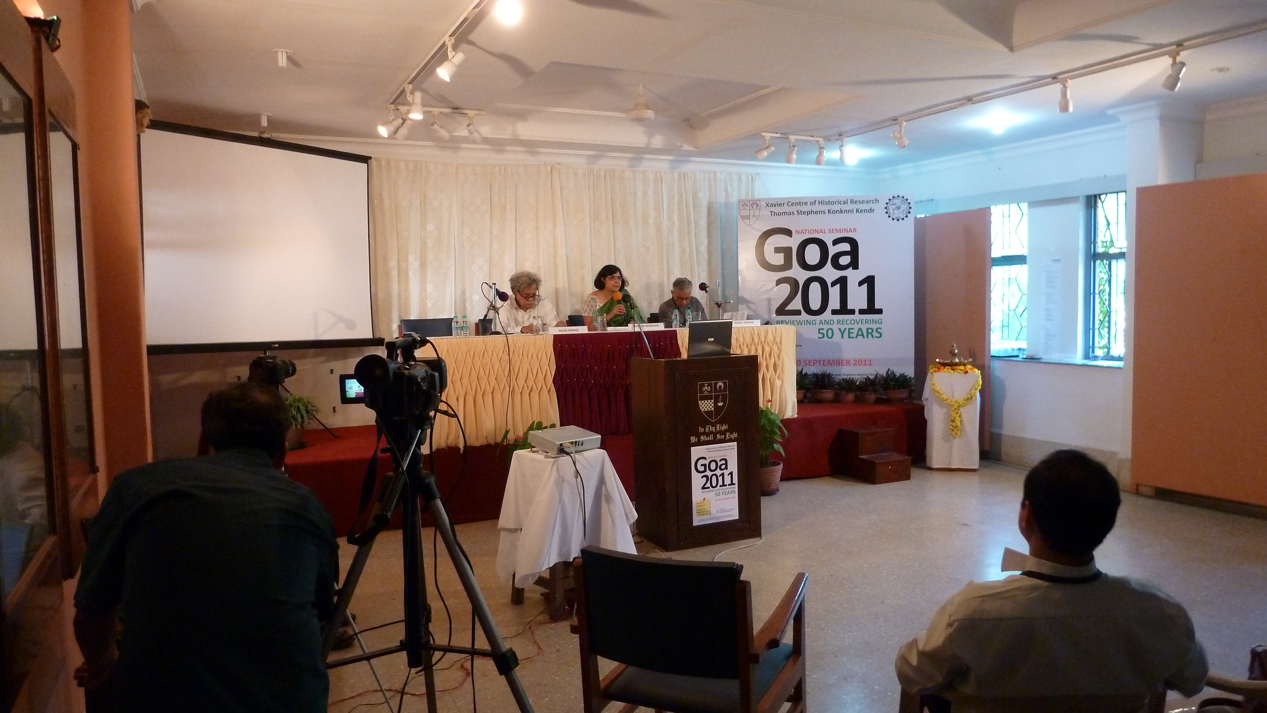 Xavier Centre of Historical Research, Alto Porvorim, Goa, India. Conference held in 2011 on the 50th anniversary of the end of Portuguese rule.